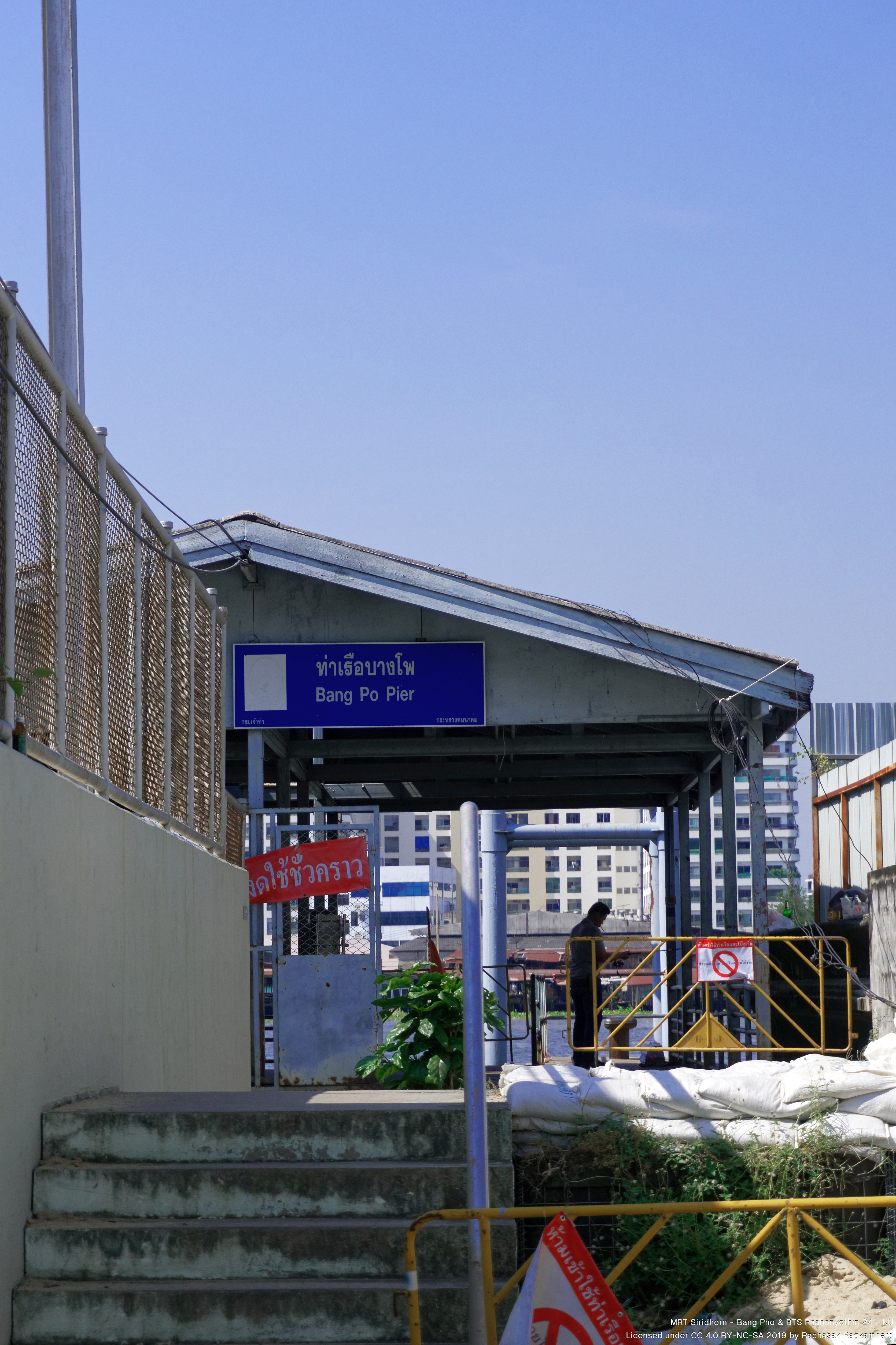 MRT Bang Pho - Bang Pho pier